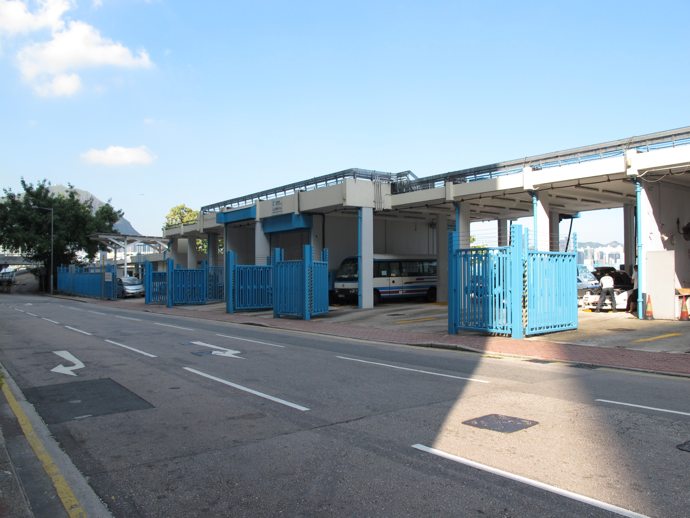 To Kwa Wan Motor Vehicle Inspection Centre